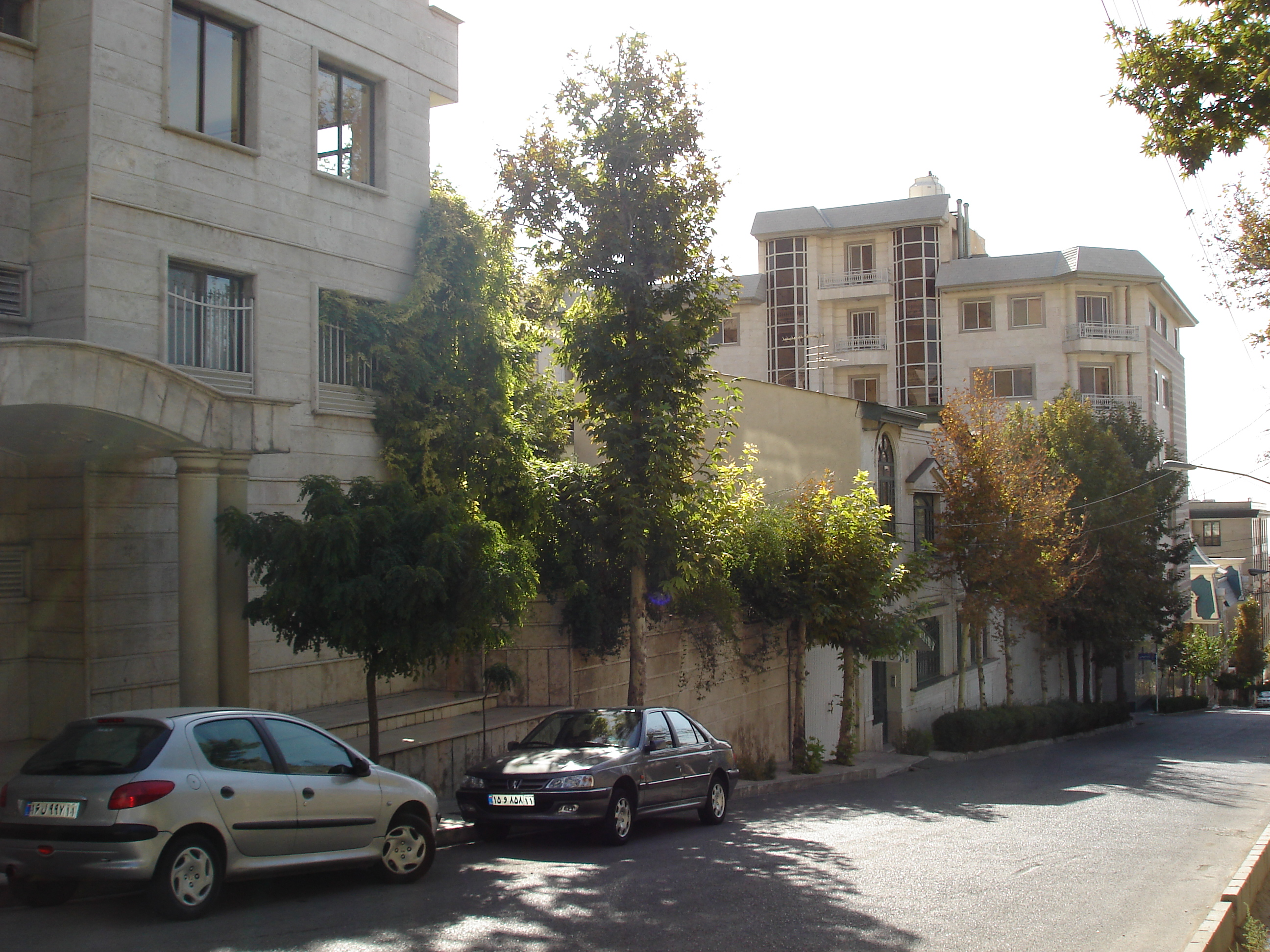 Street in Zaferaniye (Northern District of Tehran)